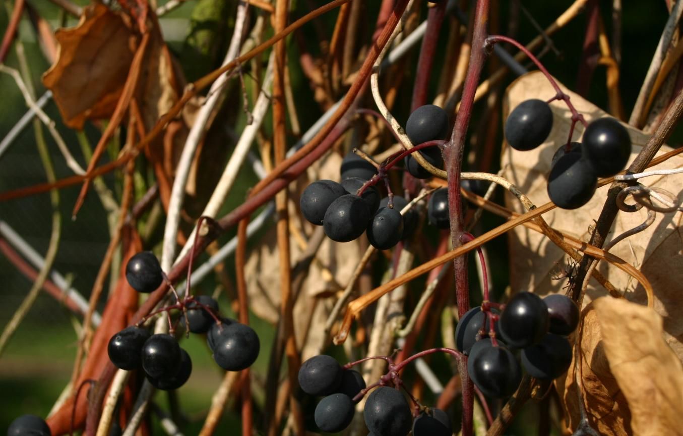 Vitis labrusca: Grapes.